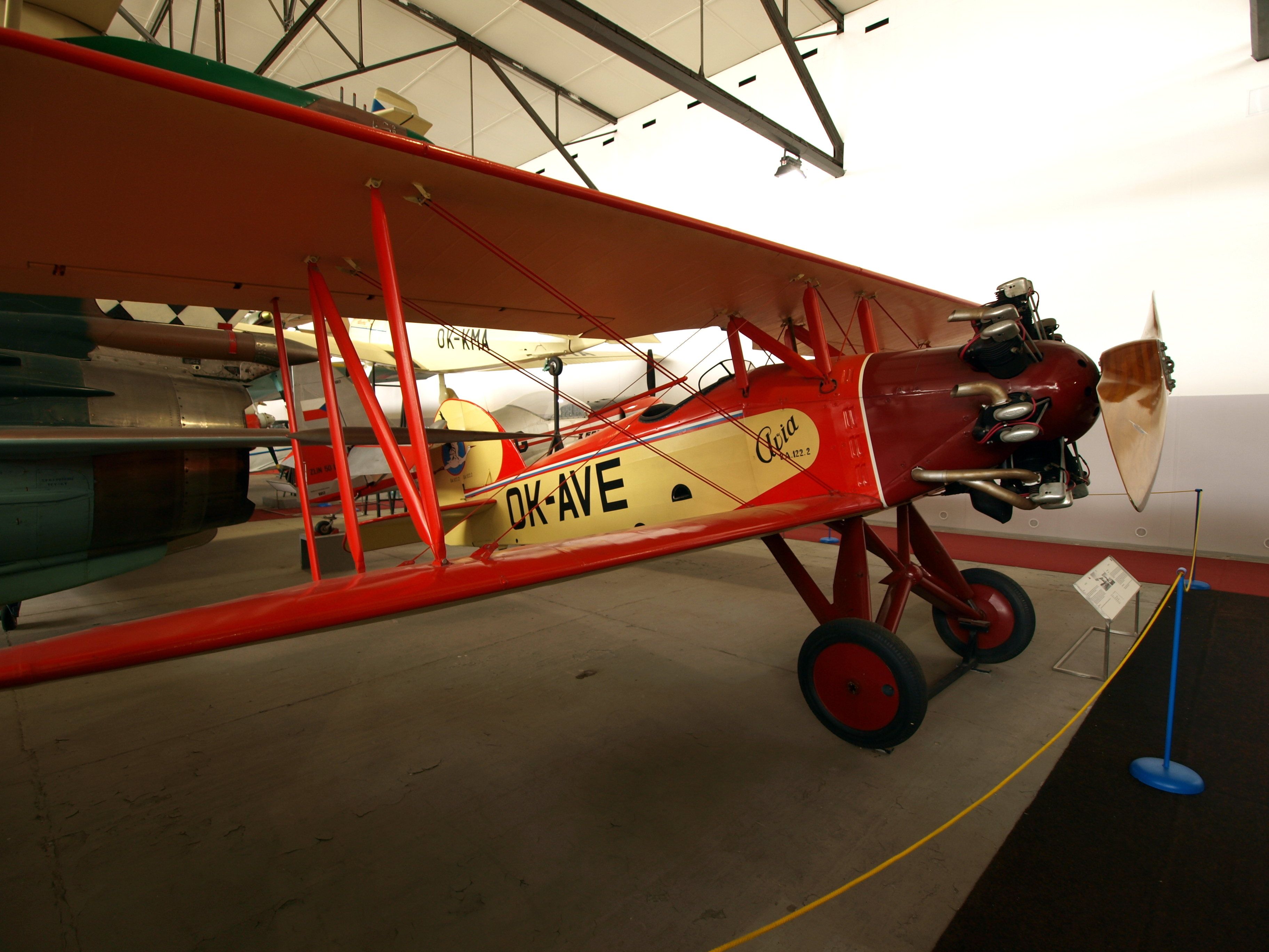 Avia Ba-122 (OK-AVE). Photograph taken without a tripod (was not allowed!).